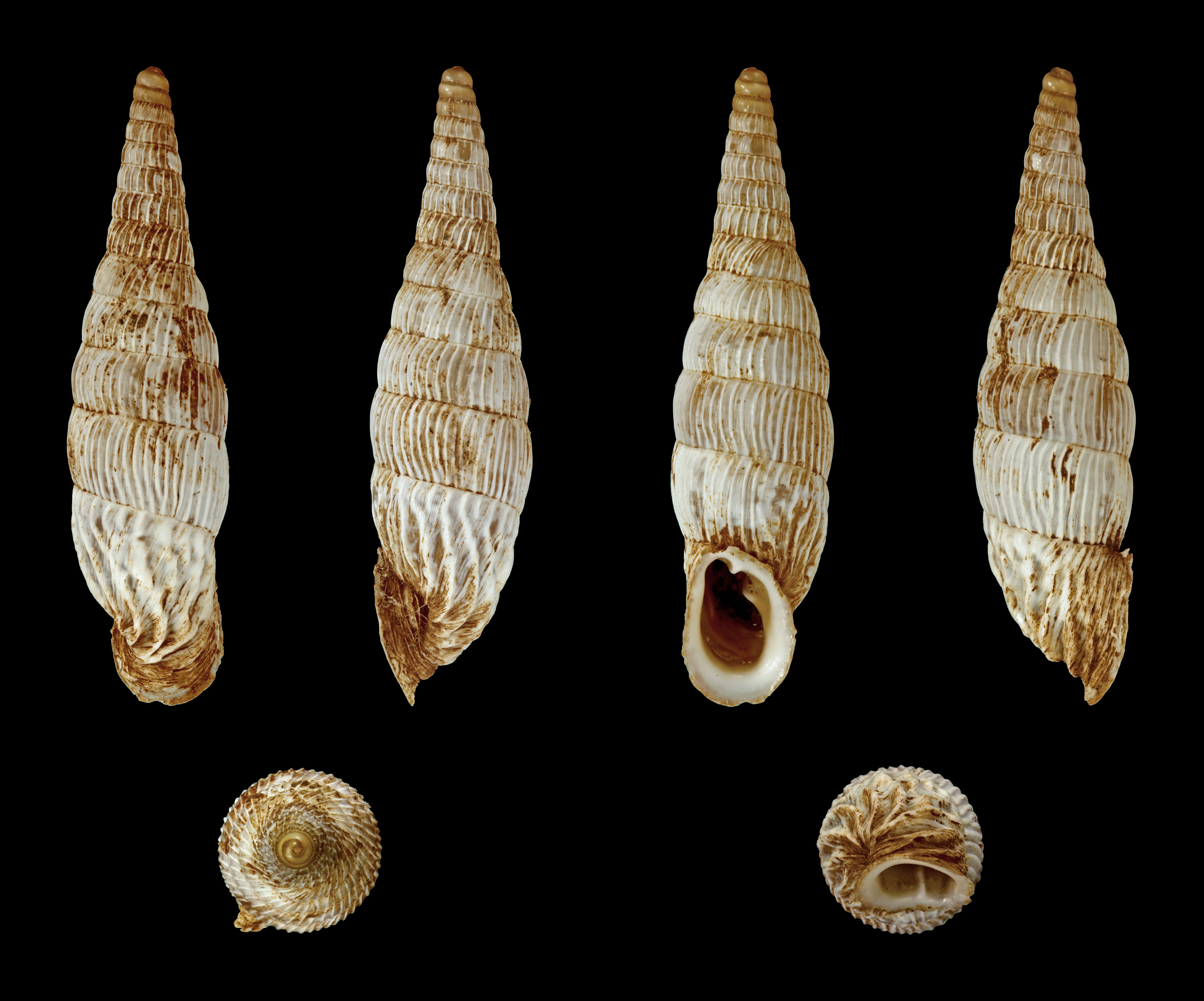 Albinaria corrugata leonisorum (Boettger, 1801) ; Length 2.1 cm; Originating from a wall of the ruins of Lato, Crete, Greece; Shell of own collection, therefore not geocoded. Dorsal, lateral (right side), ventral, lateral (left side), apex (diam 1 mm), and front view. Info Albinaria corrugata leonisorum was originally described by O. Boettger in 1901 as a discrete species, Clausilia leonisorum. Today it is considered to belong to the Albinaria corrugata species complex.